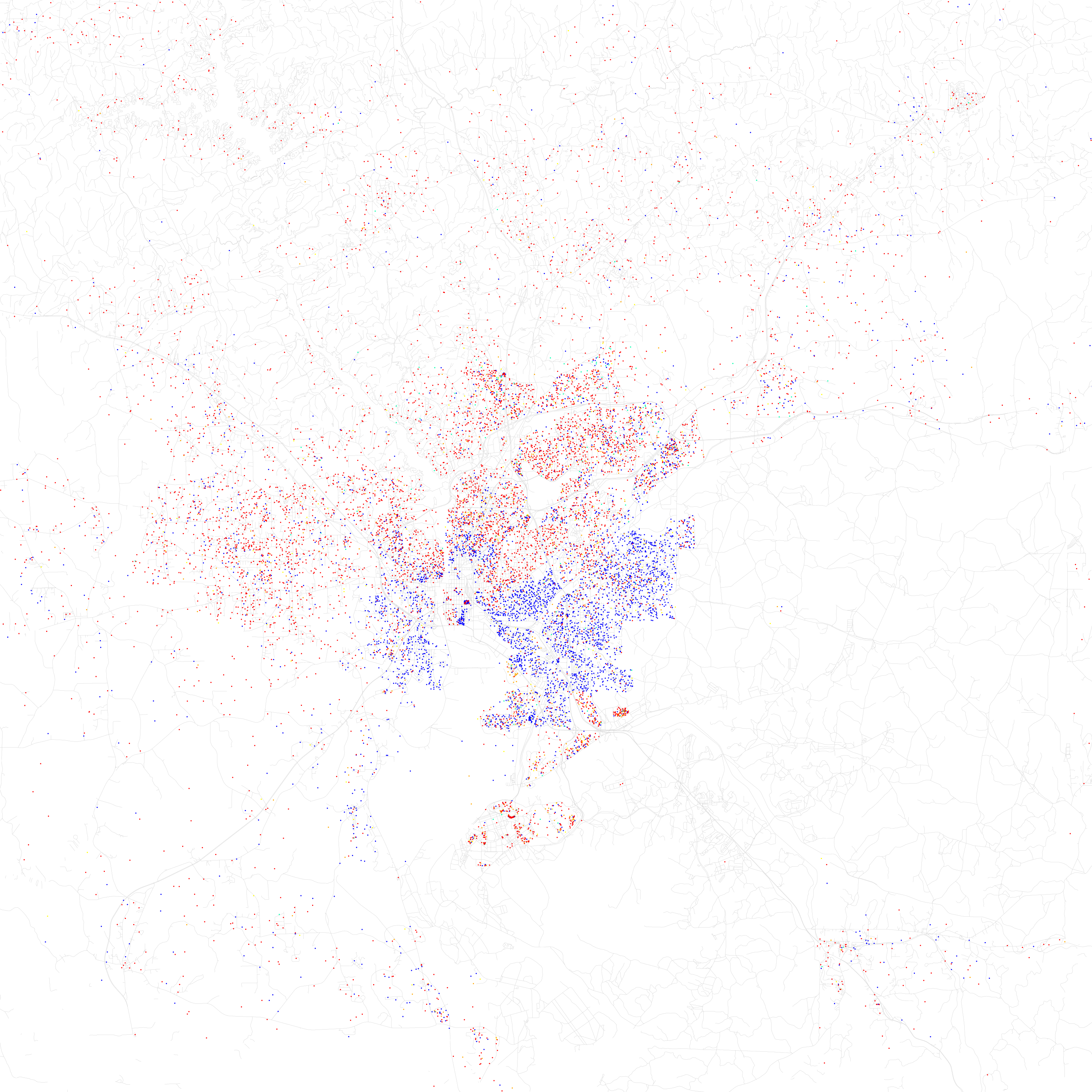 Maps of racial and ethnic divisions in US cities, inspired by Bill Rankin's map of Chicago, updated for Census 2010. Red is White, Blue is Black, Green is Asian, Orange is Hispanic, Yellow is Other, and each dot is 25 residents. Data from Census 2010. Base map © OpenStreetMap, CC-BY-SA